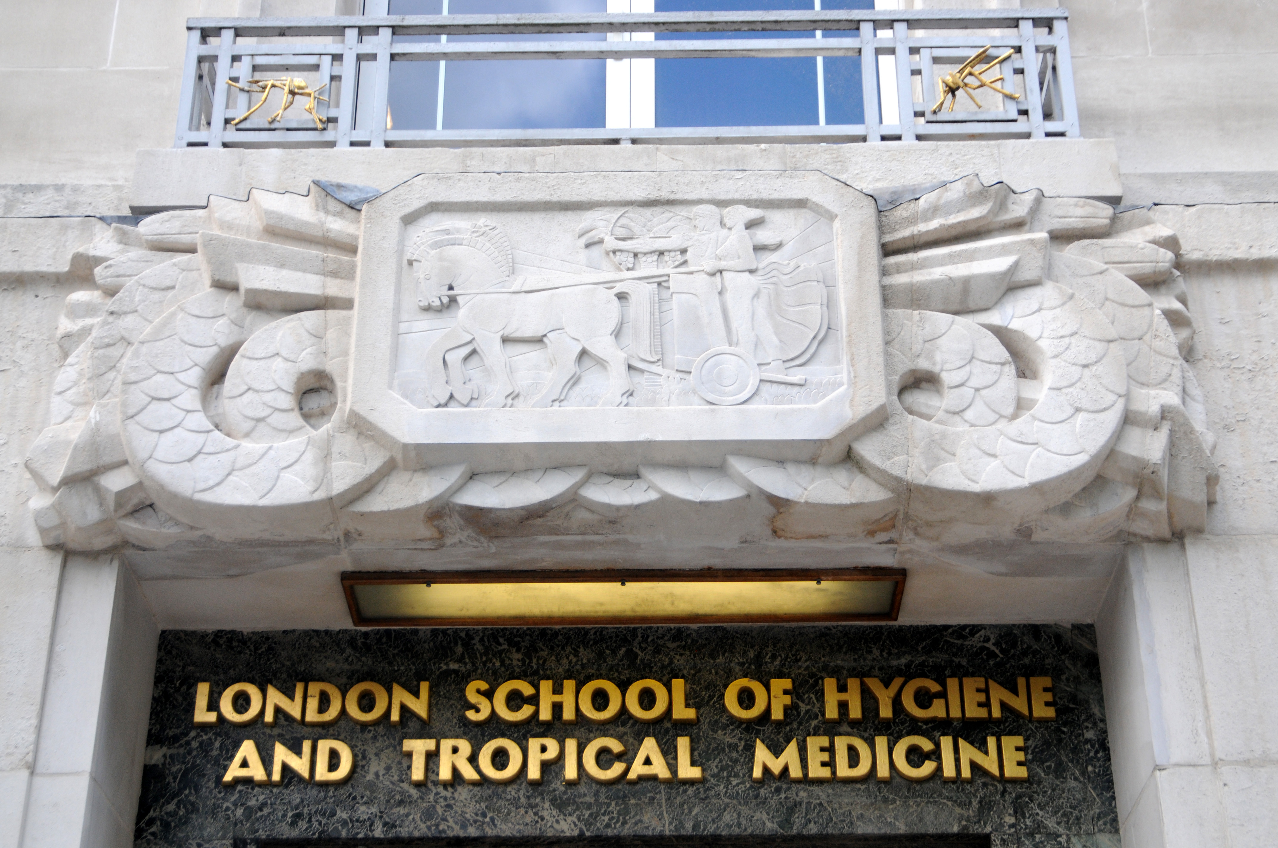 Sign above the main entrance of London School of Hygiene & Tropical Medicine.